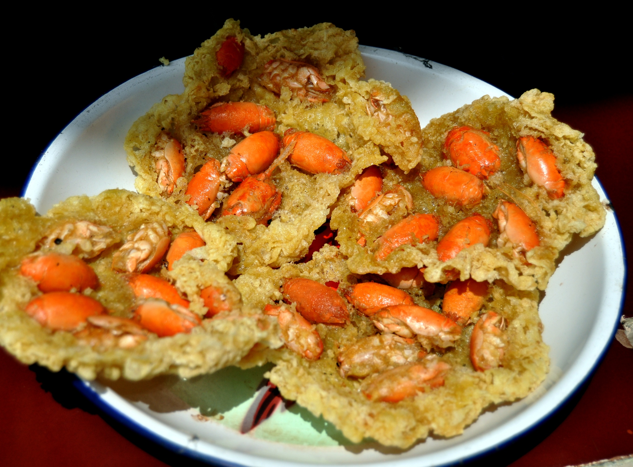 Mole crabs, Hippoidea spp., cooked as delicacy (e.g. rice crackers, in this photo mainly consist of Emerita species) in Cilacap southern coast of Central Java, Indonesia.